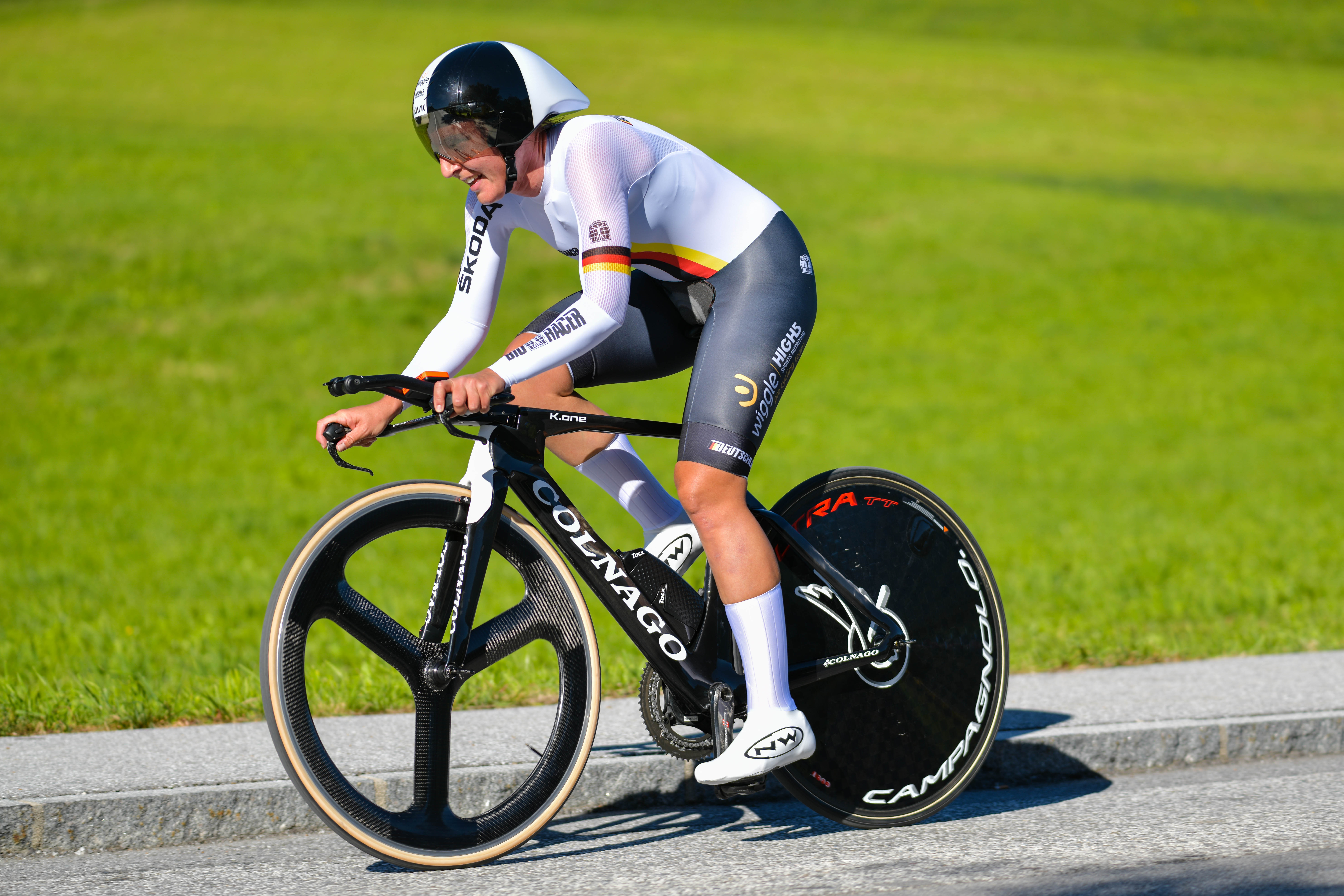 2018 UCI Road World Championships Innsbruck/Tirol Women Elite Individual Time Trial. Picture shows: Lisa Brennauer of Germany